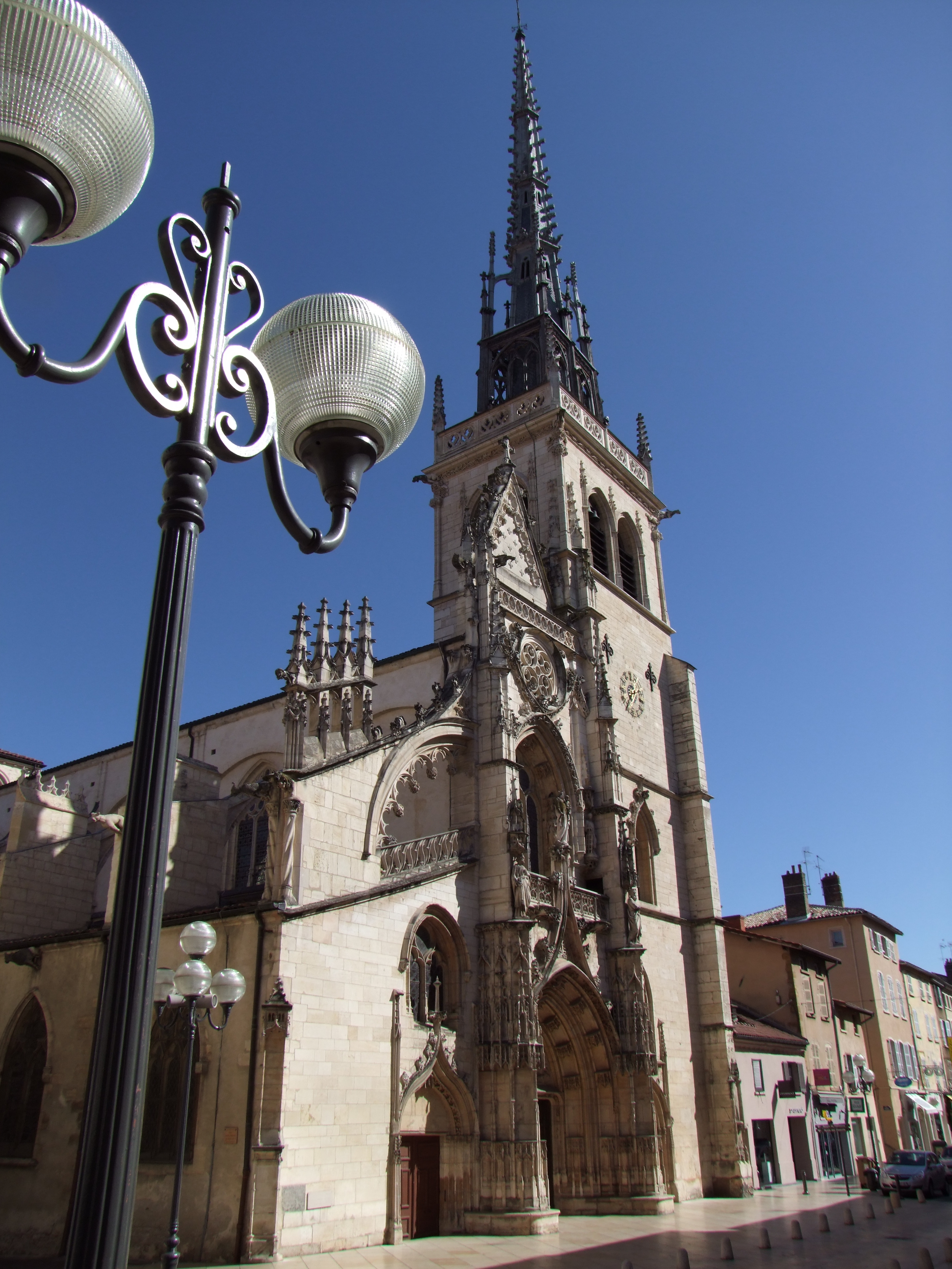 Katedra w Villefranche